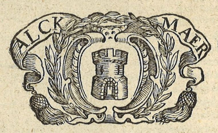 Printers device